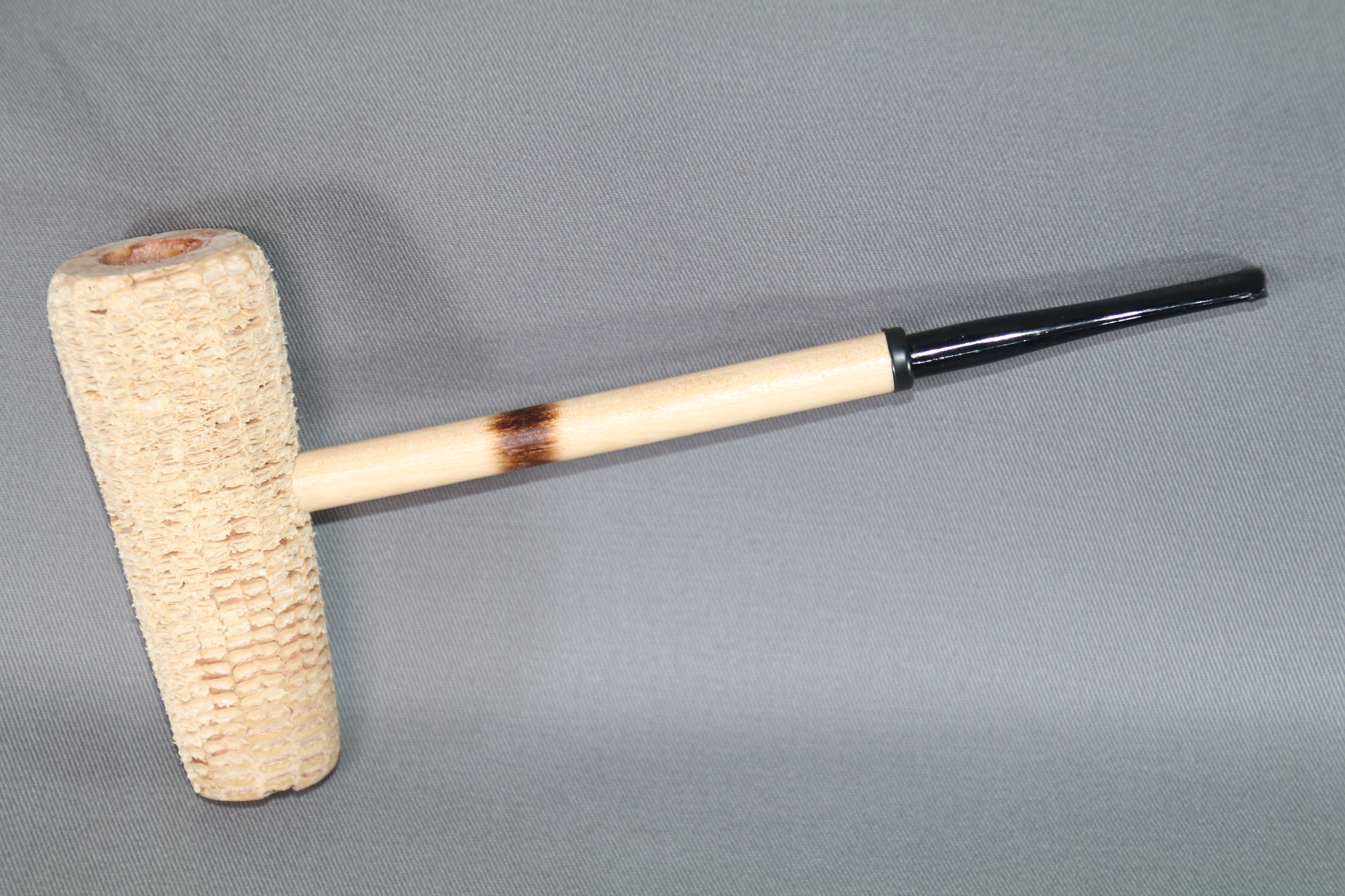 MacArthur shape smoking pipe. Missouri Corn Cob Pipes.